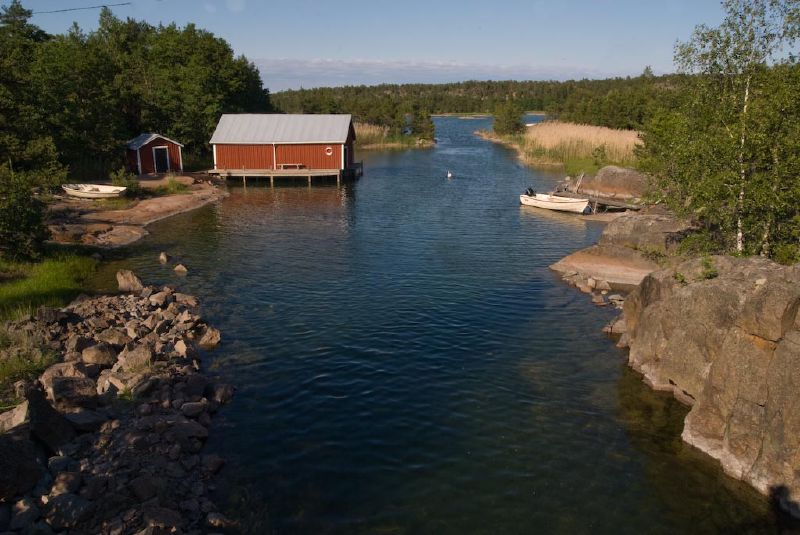 Åland, Finland – Summer 2007